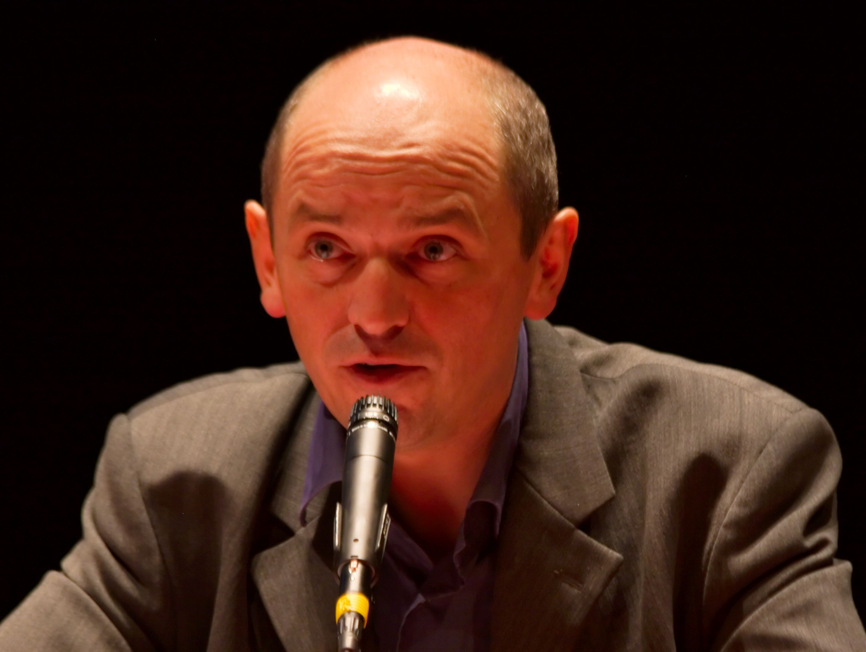 Pierre Larrouturou, at the Forun Libération 2008